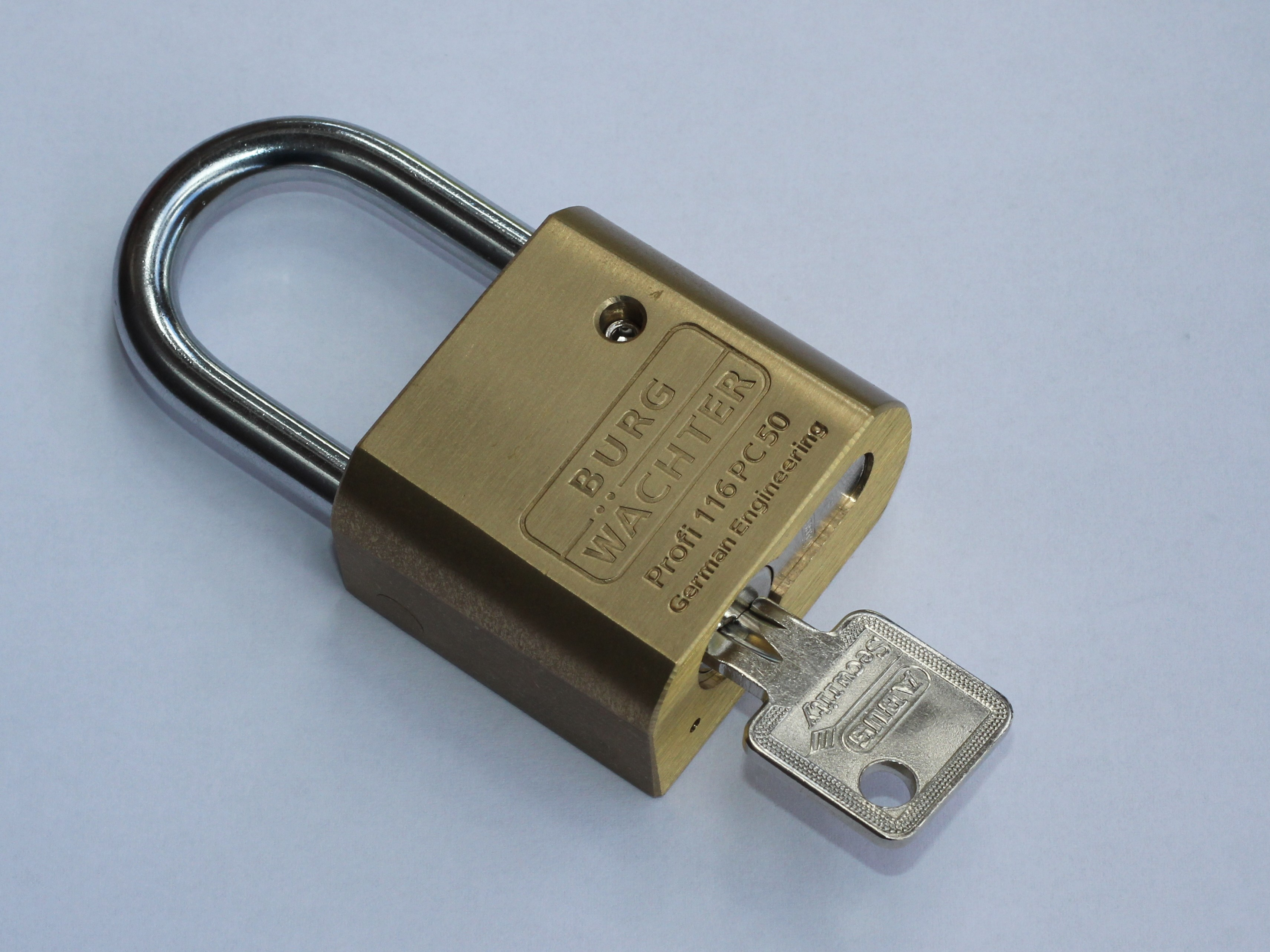 Padlock with euro profile cylinder